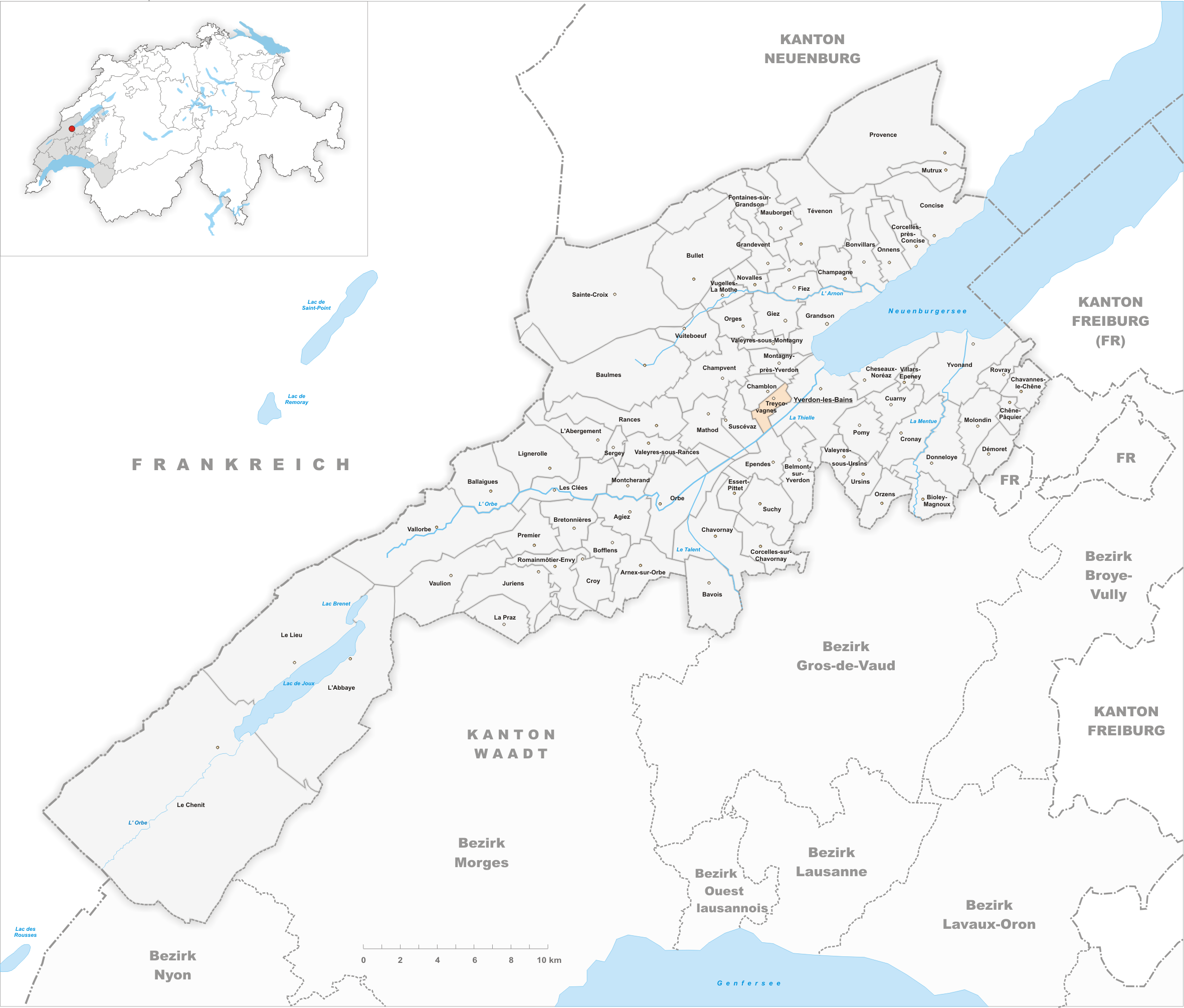 Municipality Treycovagnes